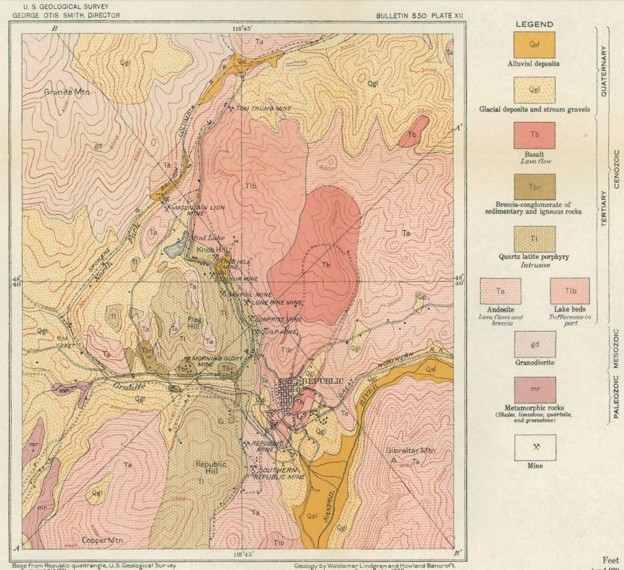 Republic Washington geologic map